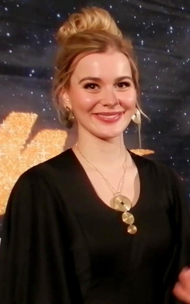 Emmelie de Forest gives interview to ESCplus.